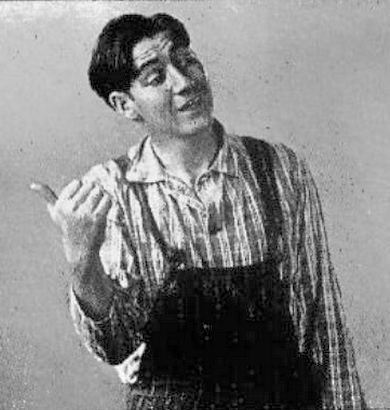 Pat Buttram